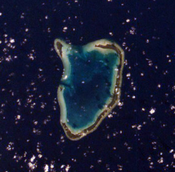 NASA astronaut image of Abemama Atoll, Gilbert Islands, Kiribati ISS Crew Earth Observations: ISS009-E-21597 Identification Mission ISS009 (Expedition 9) Roll E Frame 21597 Country or Geographic Name Kiribati Features ABEMAMA, MAIANA, TARAWA ATOLLS Center Point Latitude 1.0° N Center Point Longitude 173.5° E Camera Camera Tilt 45° Camera Focal Length 35 mm Camera Kodak DCS760C Electronic Still Camera Film 3060 x 2036 pixel CCD, RGBG array. Quality Percentage of Cloud Cover 11-25% Nadir What is Nadir? Date 2004-09-05 Time 19:41:56 Nadir Point Latitude -1.9° N Nadir Point Longitude 174.9° E Nadir to Photo Center Direction North Sun Azimuth 82° Spacecraft Altitude 194 nautical miles (359 km) Sun Elevation Angle 20° Orbit Number 1098